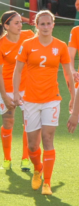 The 2015 FIFA Women's World Cup is the seventh FIFA Women's World Cup, the quadrennial international women's football world championship tournament. The tournament will be held from 6 June to 5 July 2015. New Zealand v. Netherlands Match Highlights